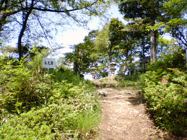 Mii castle ruins (Main enclosure ruins), Kakamigahara City, Gifu Pref, Japan三井城址（本丸）を撮影（岐阜県各務原市）